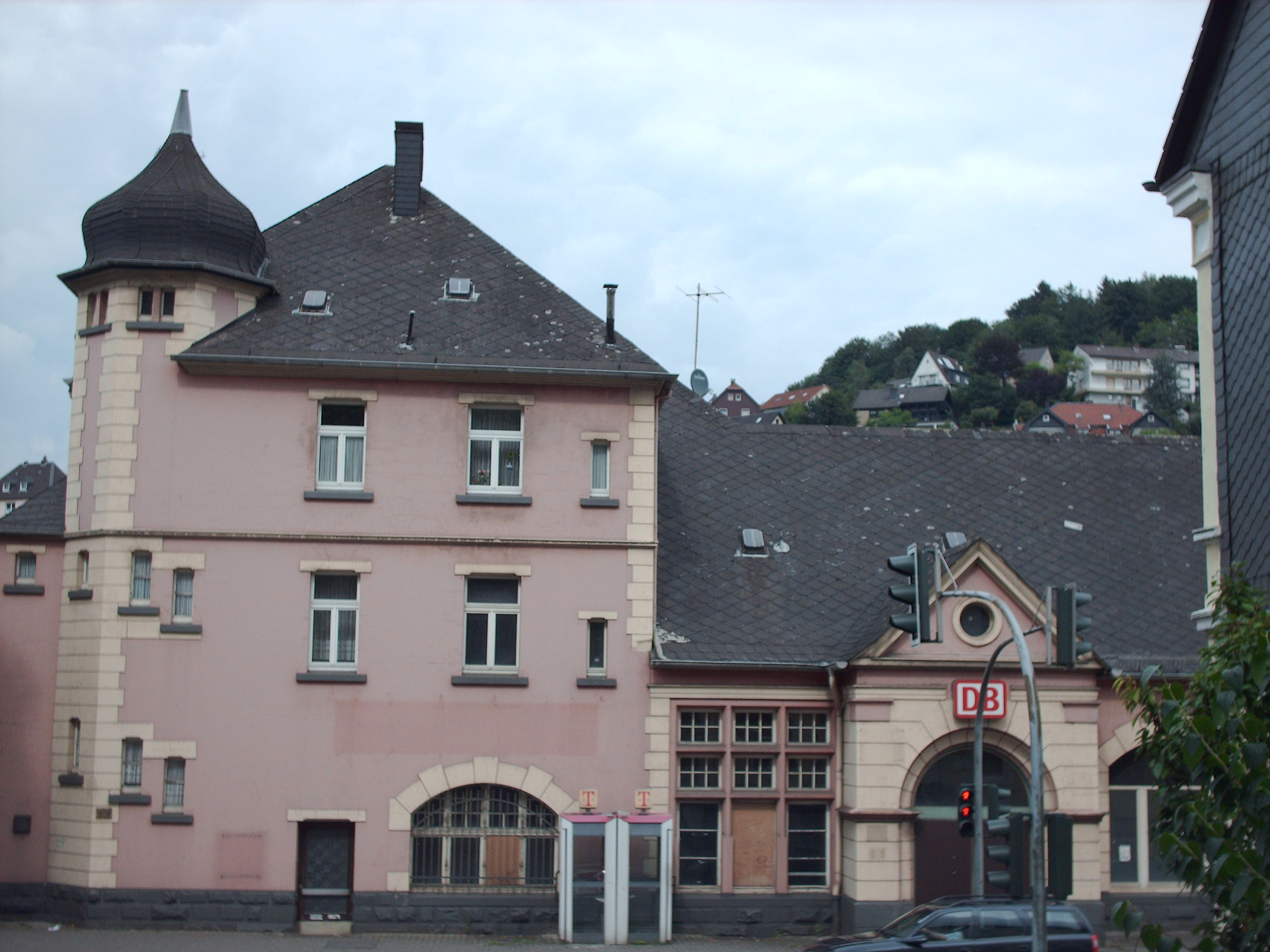 Altena (Westf) Station, Altena, Germany check usage